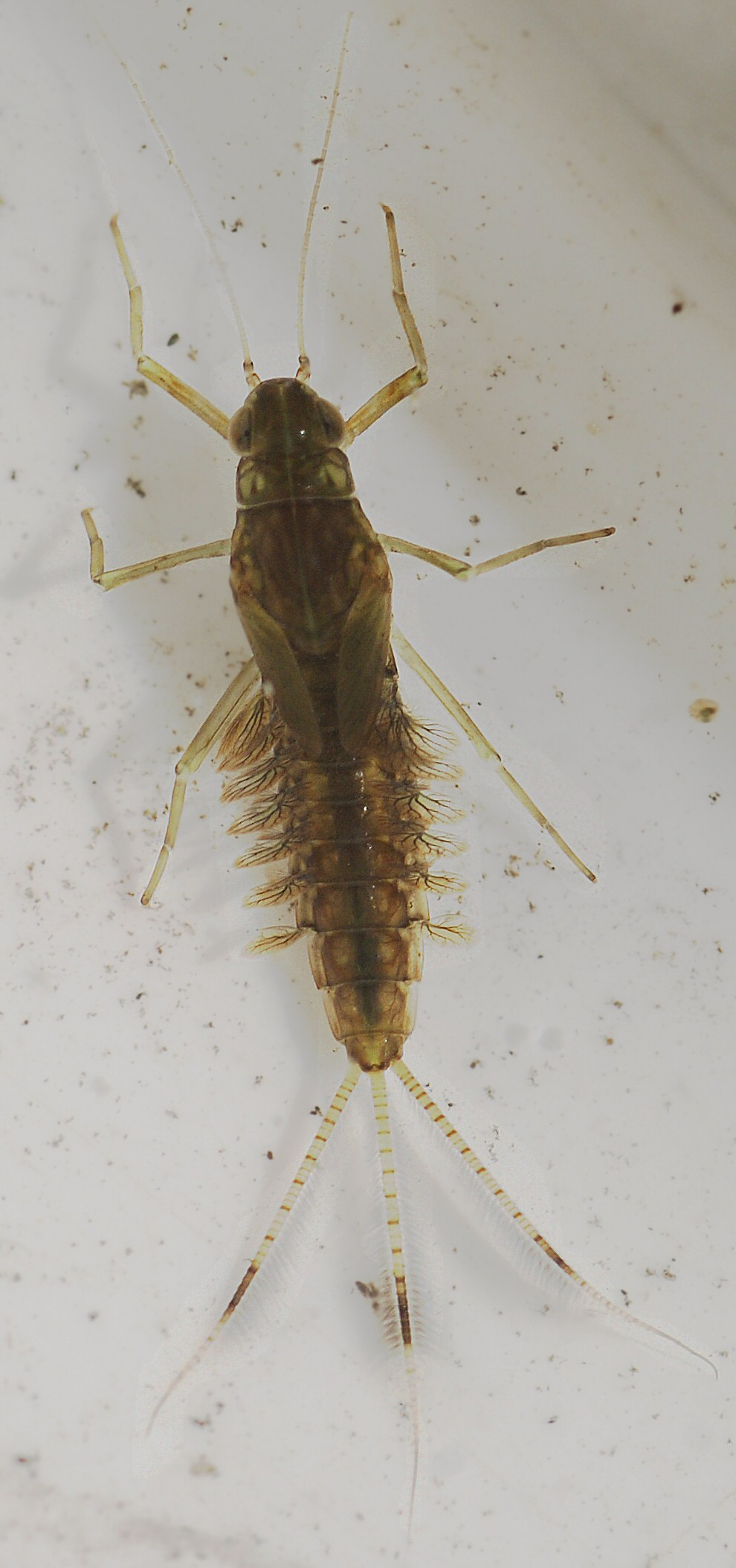 Mayfly nymph, dorsal view, showing wing buds, 7 pairs of gills and 3 abdominal appendages